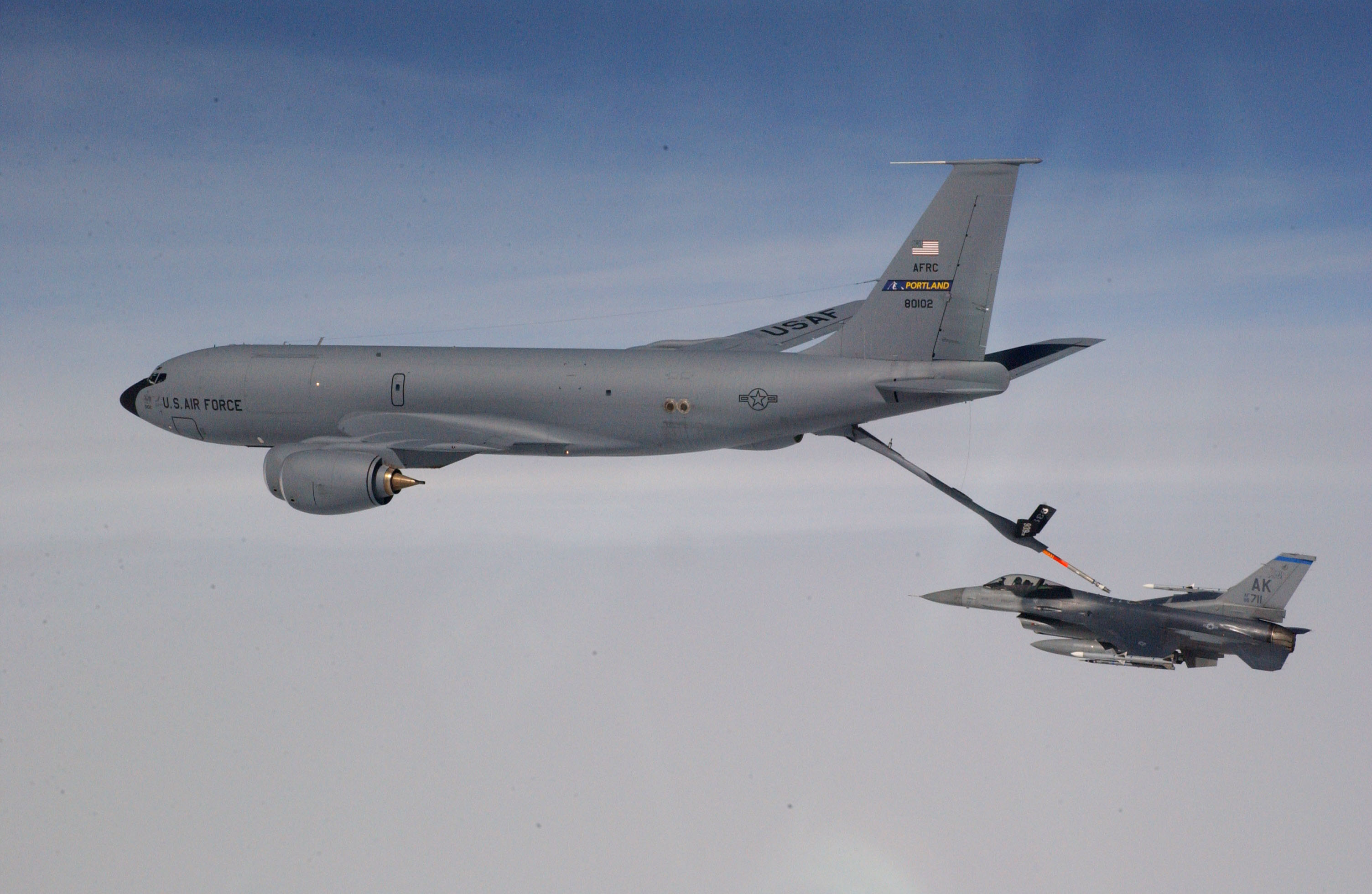 A KC-135 Stratotanker refuels an F-16 Fighting Falcon. For Nov. 8, coalition tankers flew 47 sorties and off-loaded approximately 3.1 million pounds of fuel to 247 receiving aircraft. (U.S. Air Force photo by Master Sgt. Rob Wieland)